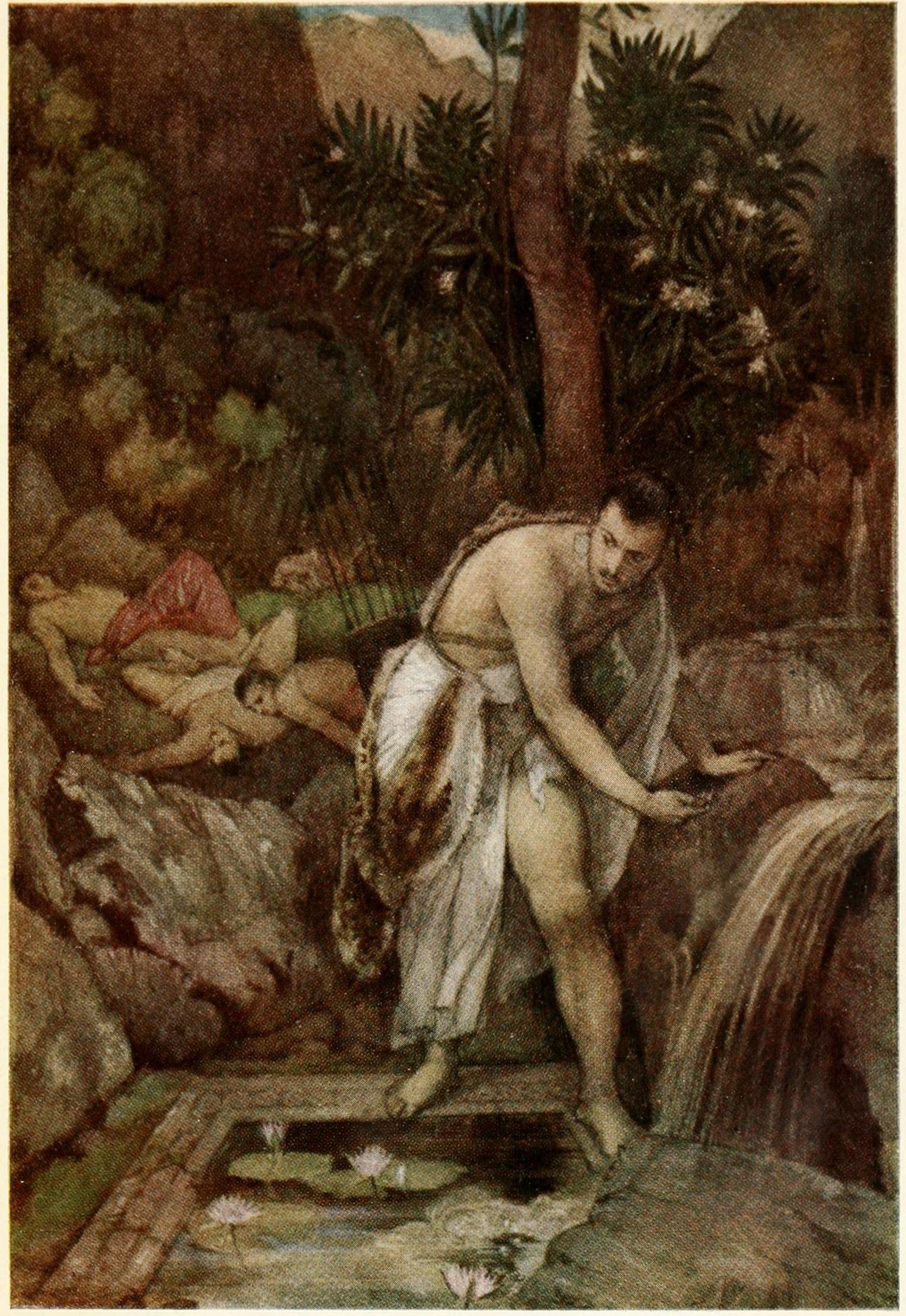 Author: Monro, W. D Publisher: New York : Thomas Y. Crowell Company Possible copyright status: NOT_IN_COPYRIGHT Language: English Call number: 600940 Digitizing sponsor: MSN Book contributor: New York Public Library Collection: newyorkpubliclibrary; iacl; americana Notes: orange pages from unnumbered illustrations.